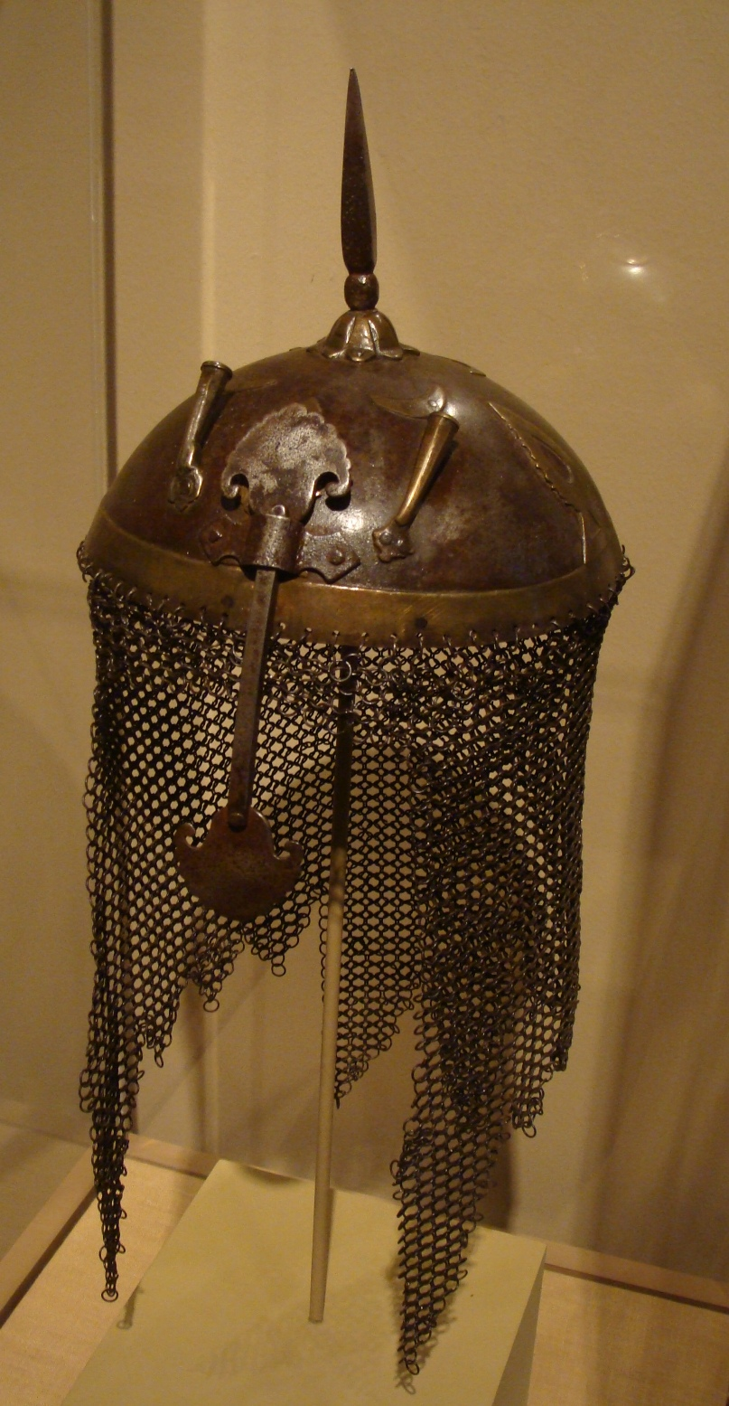 San Antonio Museum of Art, Iranian collection, helmet, 18th century, Iran.